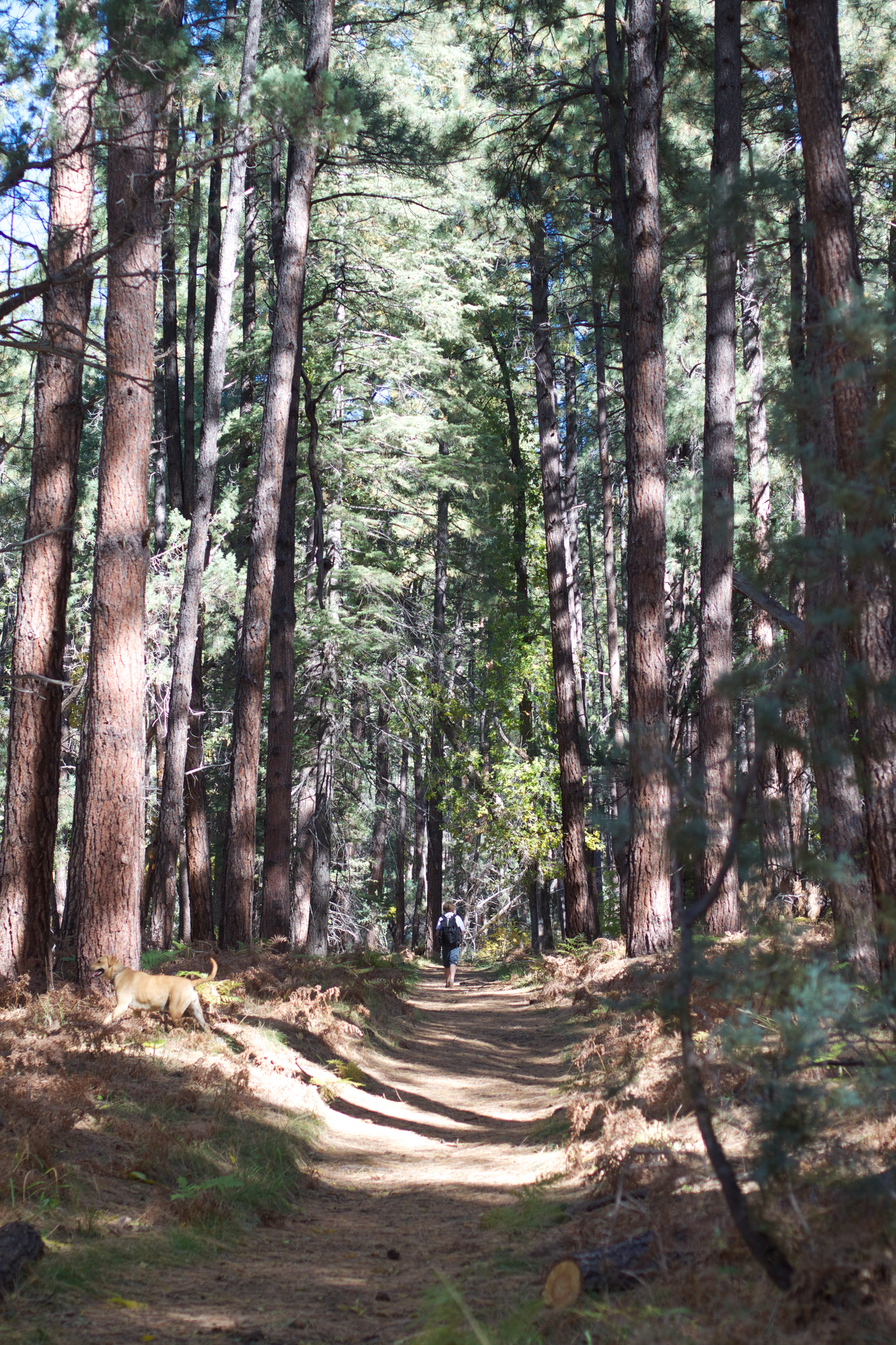 The trail from today's hike up Pine Canyon.